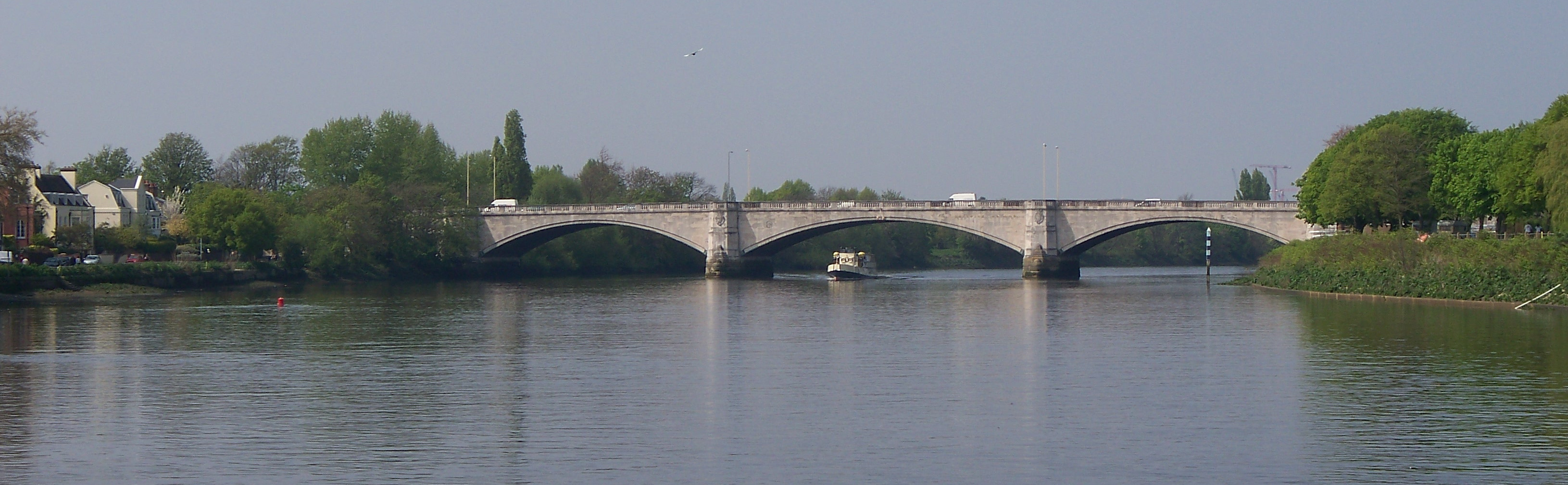 Chiswick Bridge, London. Photograph taken in a public location in the UK of a building on permanent public display, and exempt from copyright under Section 62 of the Copyright Designs & Patents Act 1988 ("it is not an infringement of copyright to film, photograph, broadcast or make a graphic image of a building, sculpture, models for buildings or work of artistic craftsmanship if that work is permanently situated in a public place or in premises open to the public")